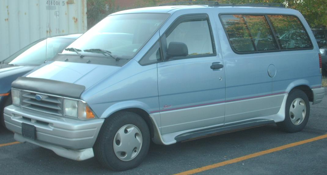 1992-1997 Ford Aerostar photographed in Montreal, Quebec, Canada.